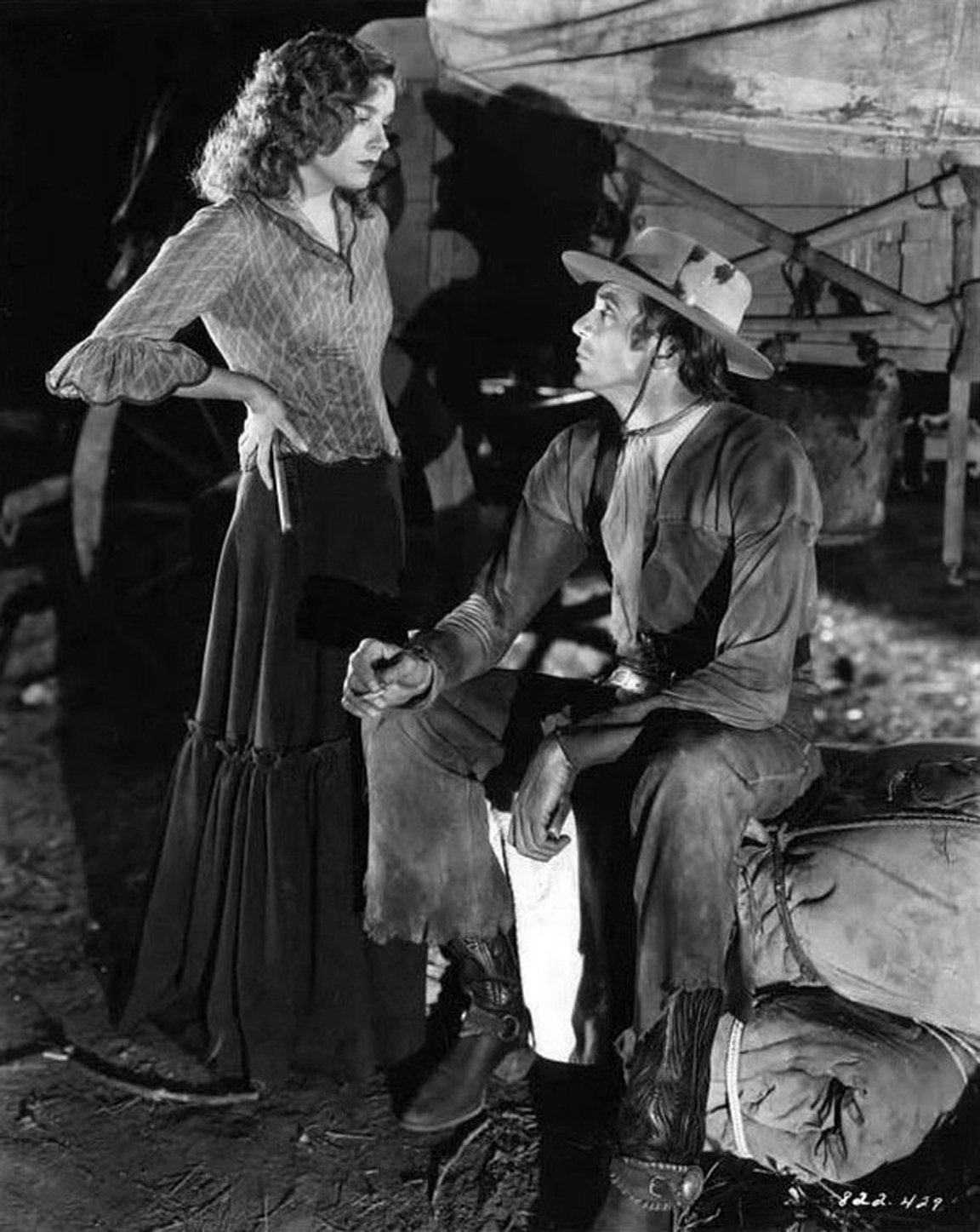 Film still showing Lili Damita and Gary Cooper in Fighting Caravans, 1931